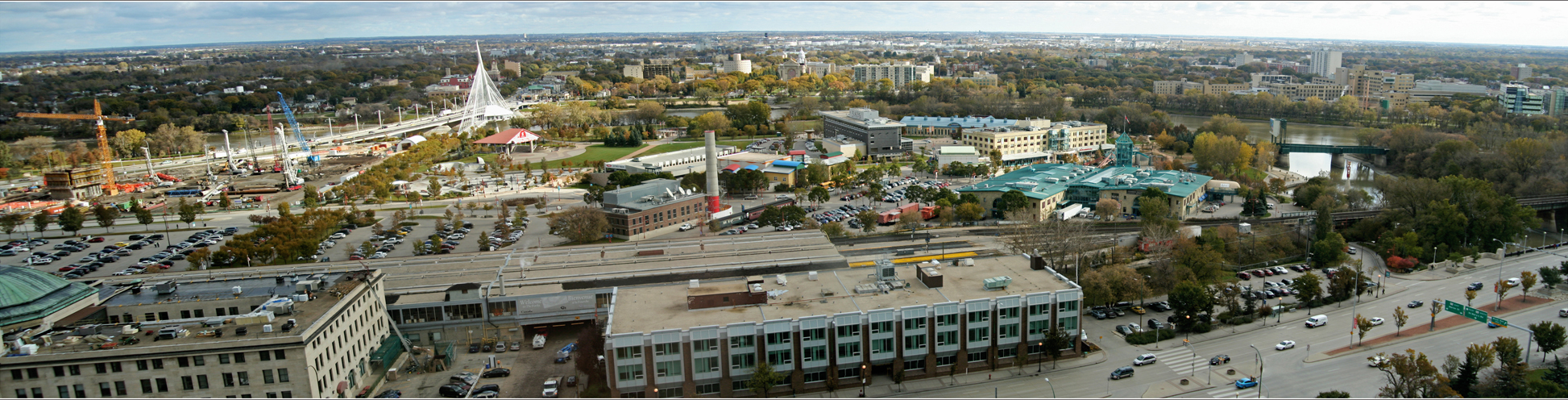 View of The Fork and construction of the Canadian Museum of Human Rights to the left